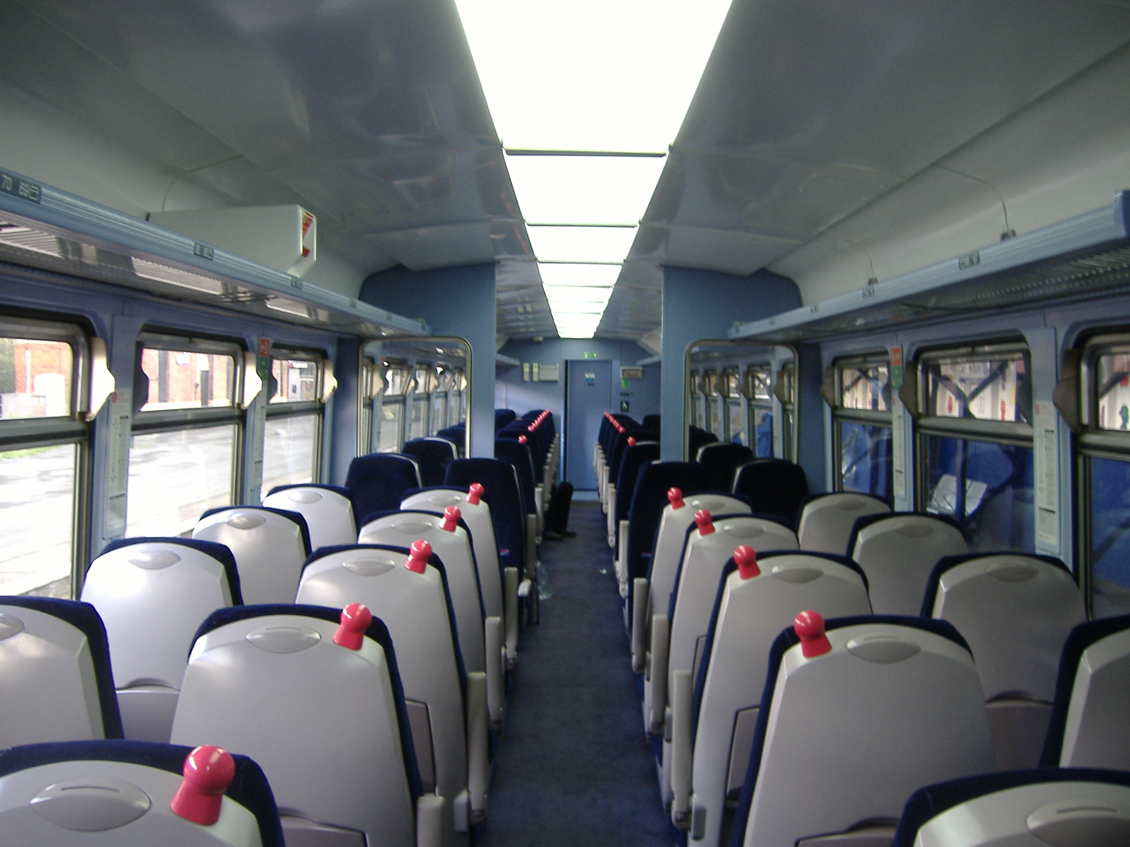 The interior of First Great Western British Rail Class 153 153373 at Avonmouth railway station.